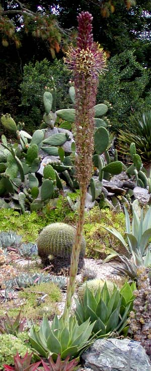 Agave chiapensis, in bloom. A the San Francisco Botanical Garden